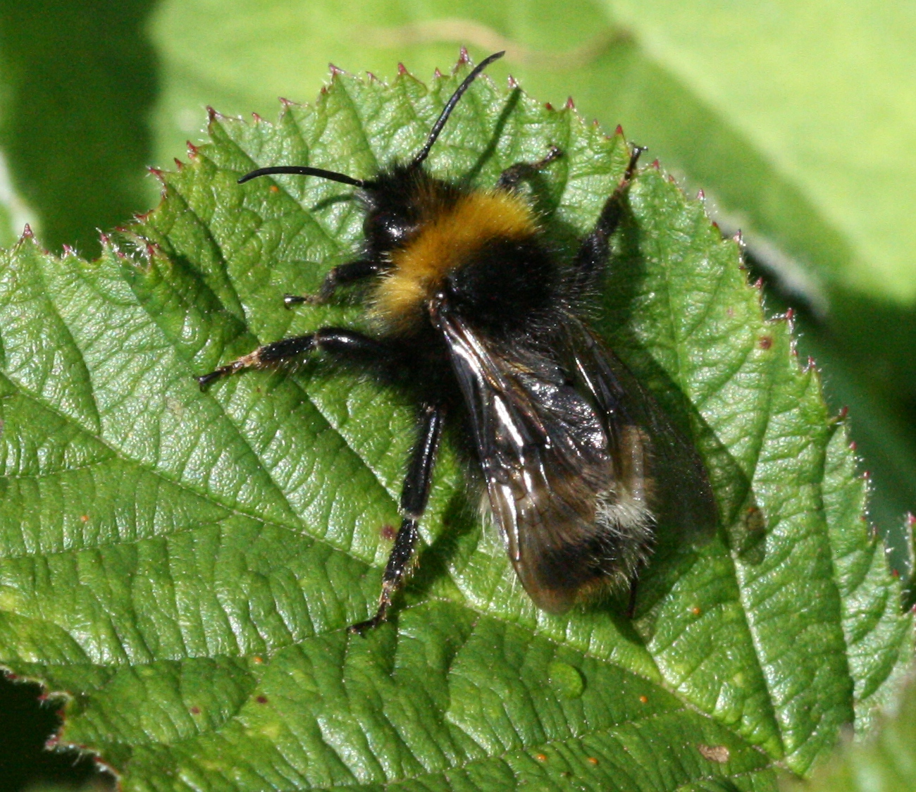 a male, Hutton Wandesley, Yorkshire, England.